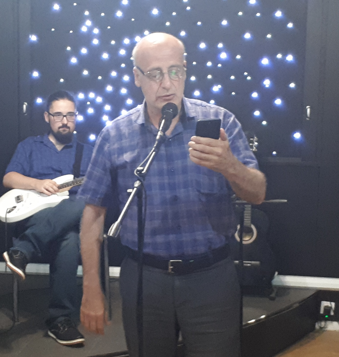 Palestinian poet Khairi Hamdan on a literature evening at club "Journalist", 20.08.2019